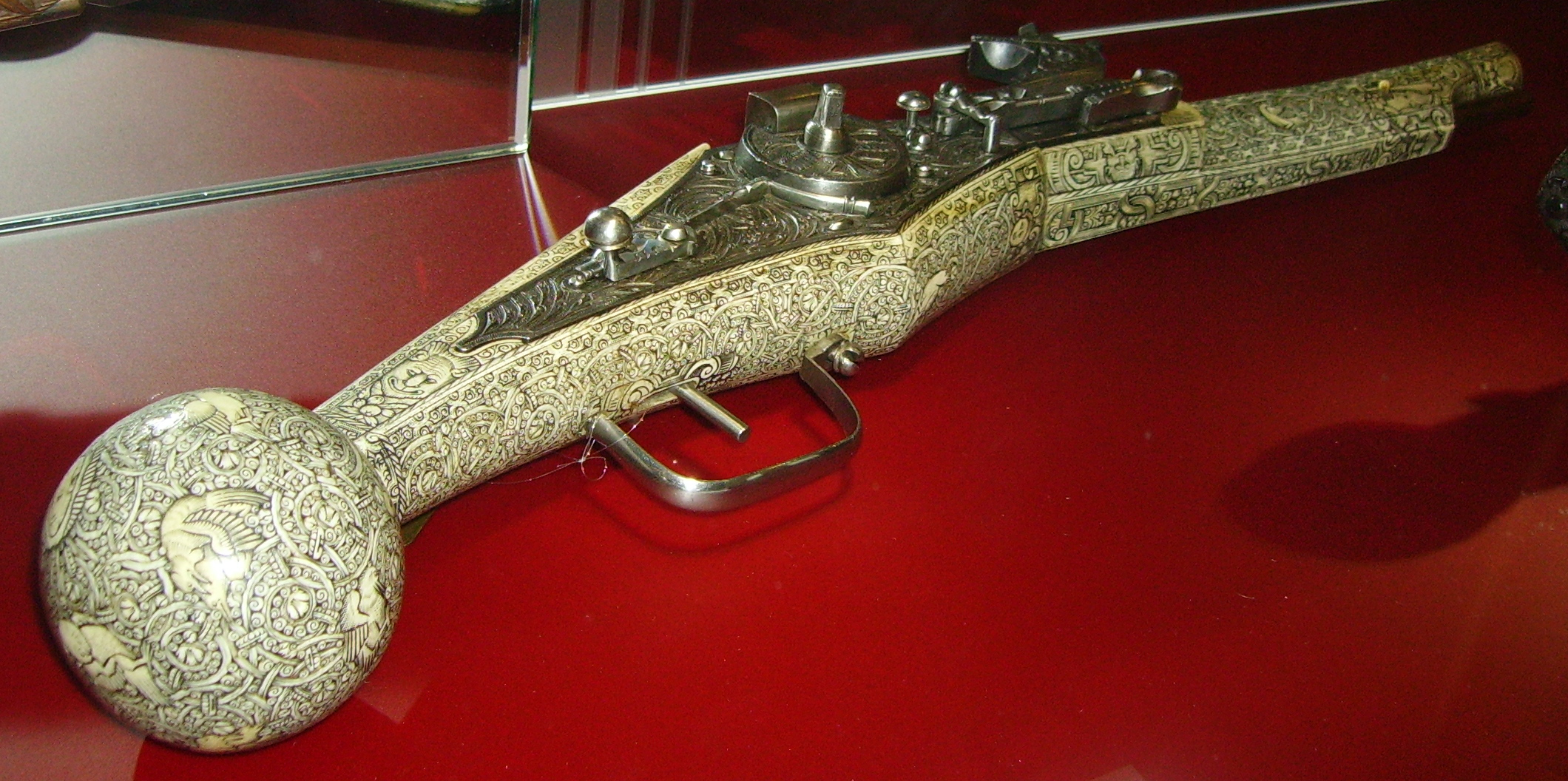 Wheellock